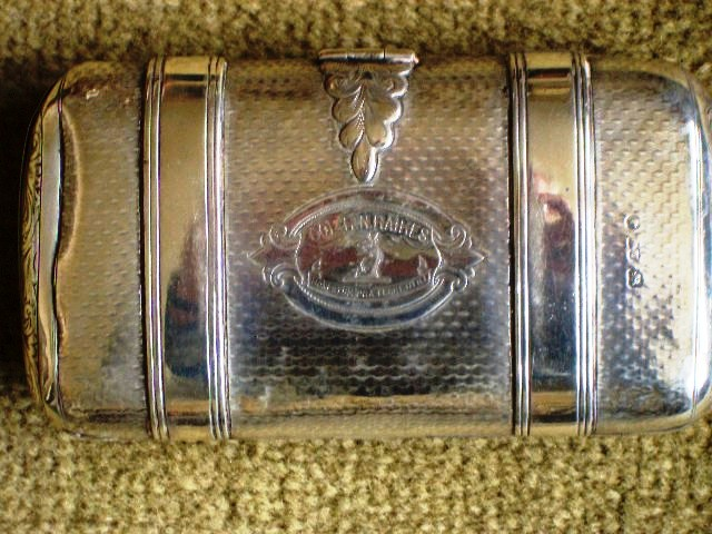 Photo by me the contributor of the 1870s cigarette case of General Raikes